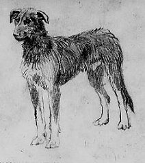 Drawing of Irish Wolfhound "Keltair" by George A. Graham